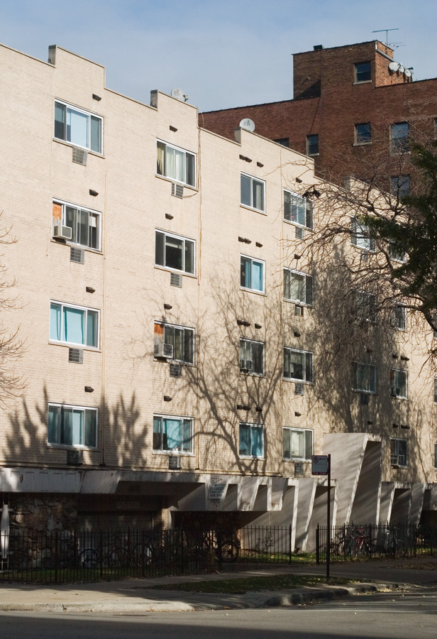 5101 Sheridan Road, Chicago, 2008.